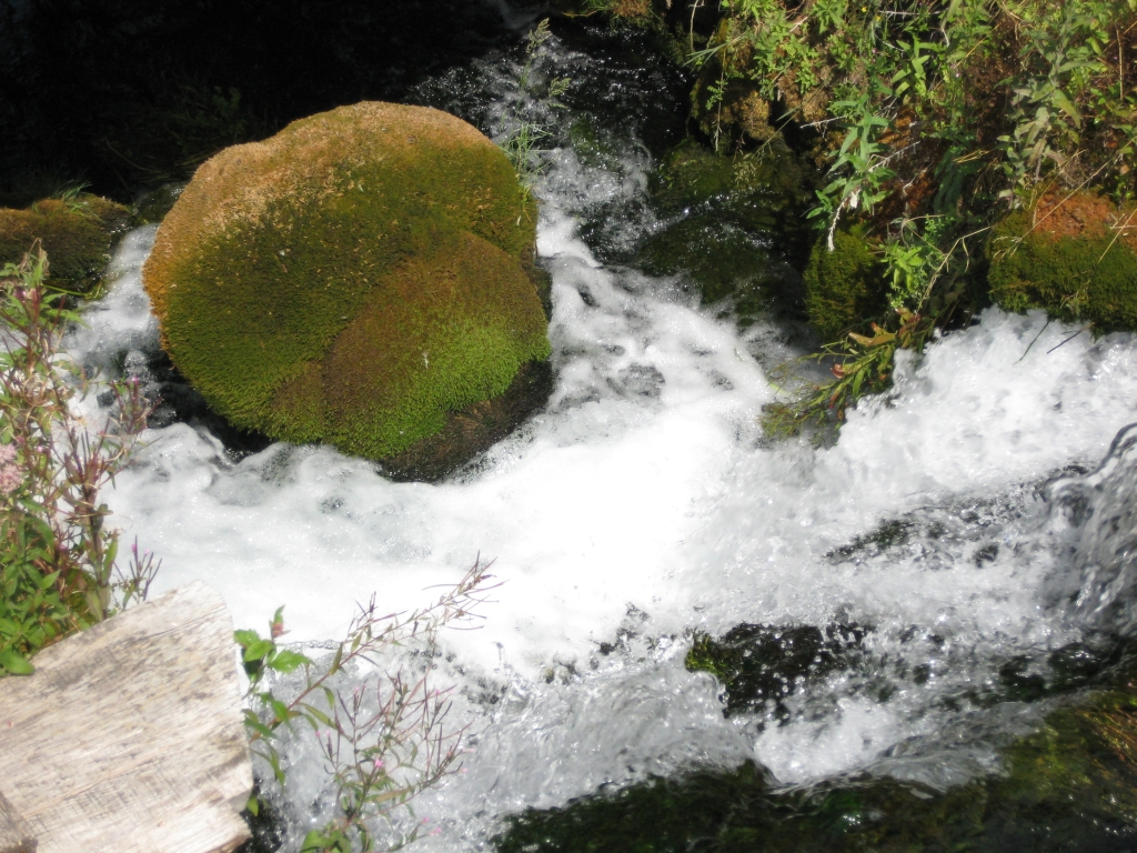 karst spring in SE of "Gacka polje"